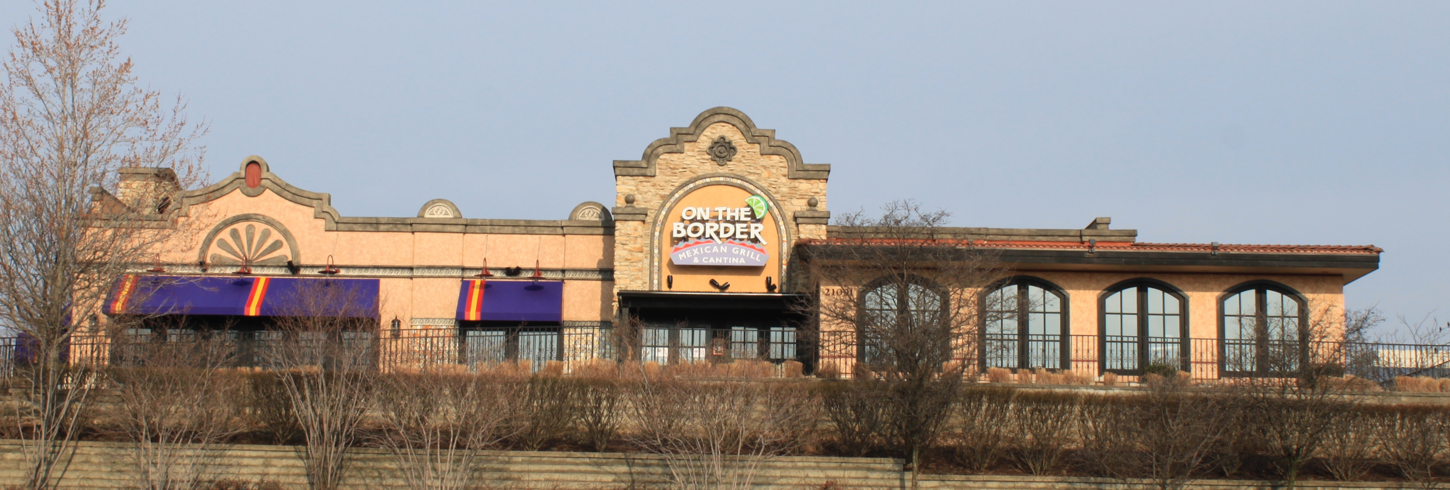 On the Border Mexican Grill & Cantina, 21091 Haggerty Road, Novi, Michigan.